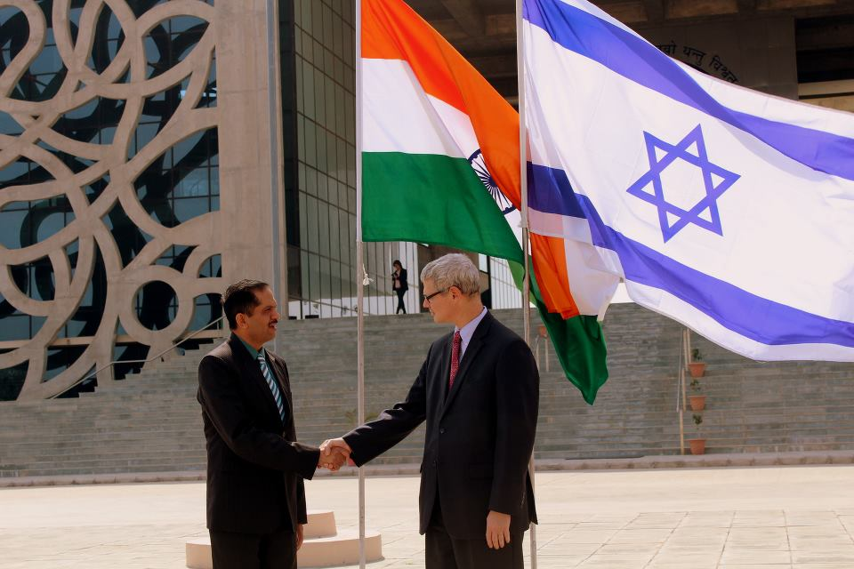 GNLU VC with the Israeli Ambassador